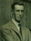 From left: G.L. Harding, Olga Tufnell, Sir Flinders Petrie.